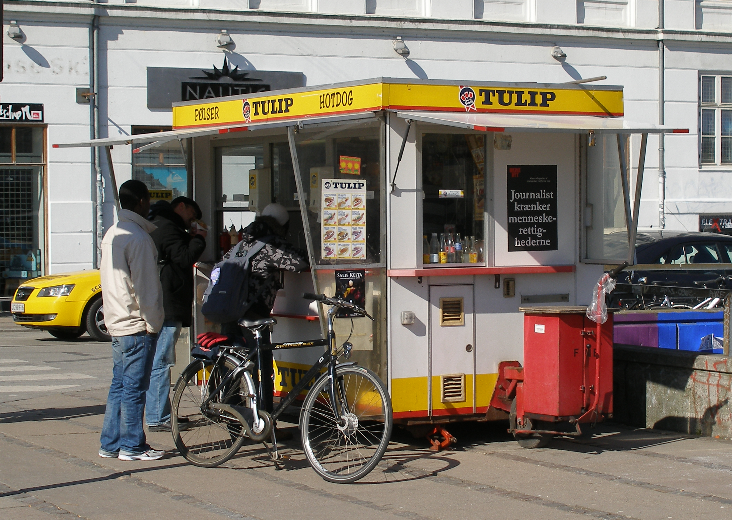 Hot dog stand, Nørrebro, Copenhagen